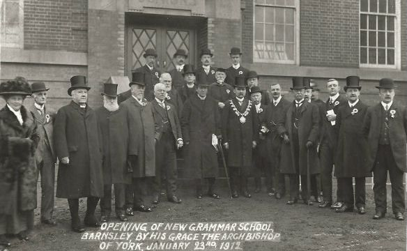 The opening of a new school building in Shaw Lane, Barnsley, for Holgate Grammar School. It was opened by the Cosmo Gordon Lang (Bishop of York in centre with stick), attended by Joseph Hobson Cotterill (Mayor of Barnsley, wearing chain), E. Talbot (Higher Education Committee), W.E. Raley (Barnsley Education Committee), Archdeacons Donne and Norris, Canon Hervey, Rev. C.S. Butler (headmaster), Dr H.H. Horne, E.G. Lancaster, R. Bury, and G.B. Walker.